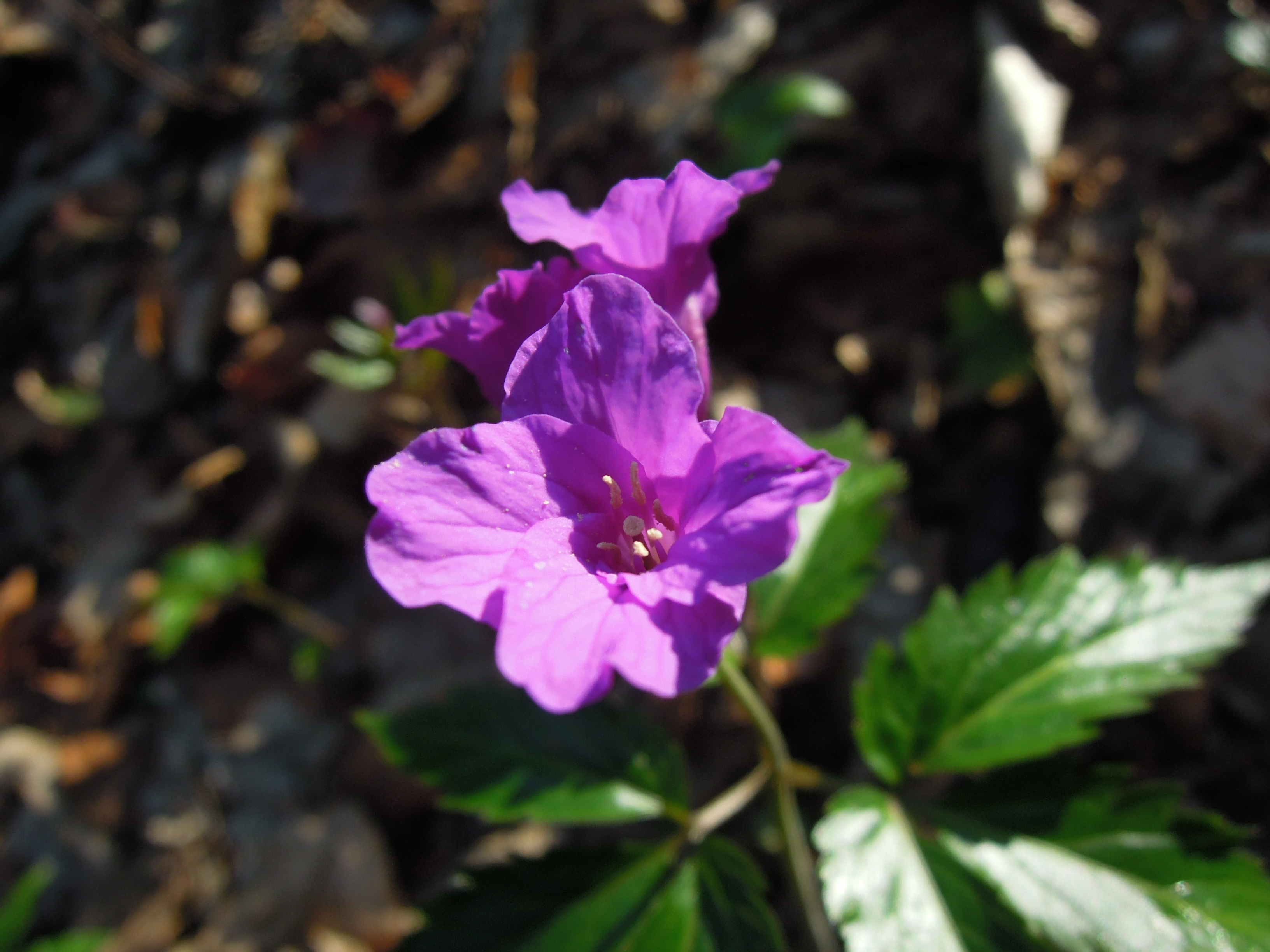 Dentaria glandulosa at natural monument Bečevná in Vsetín, Vsetín District, Zlín Region, Czech Republic